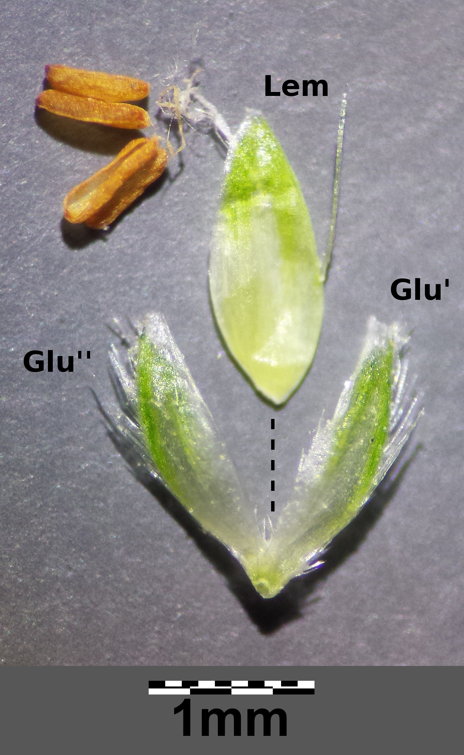 Spikelet: the glumae (Glu) are connected at their base. The lemma (Lem) of the single flower has an awn on its back. Taxonym: Alopecurus aequalis ss Fischer et al. EfÖLS 2008 ISBN 978-3-85474-187-9 Location: pond to the south of Pyhrabruck, district Gmünd, Lower Austria - ca. 550 m a.s.l. Habitat: edge of a pond